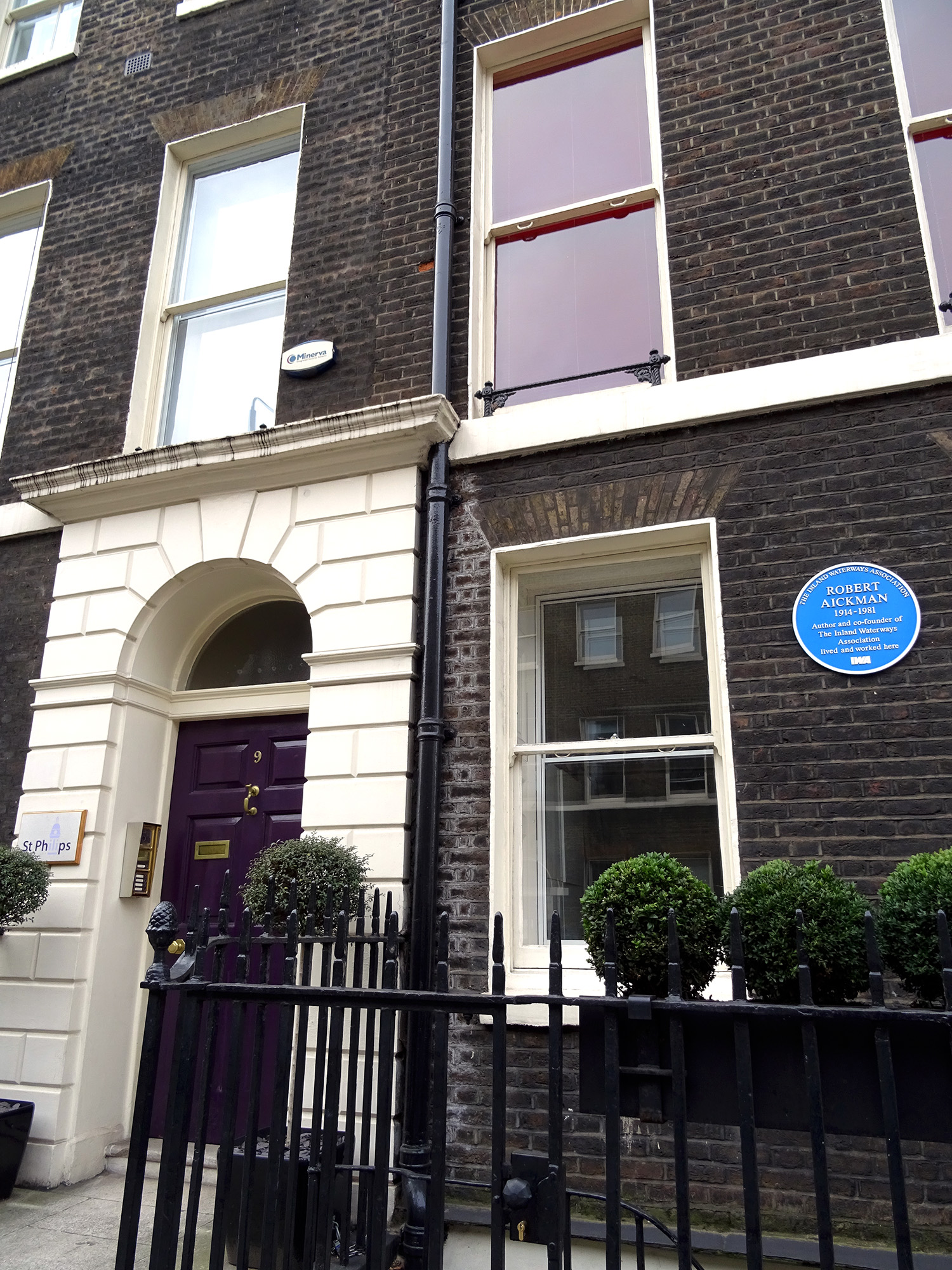 Robert Aickman 1914-1981 author and co-founder of The Inland Waterways Association lived and worked here - 11 Gower Street, London, WC1E 6HB